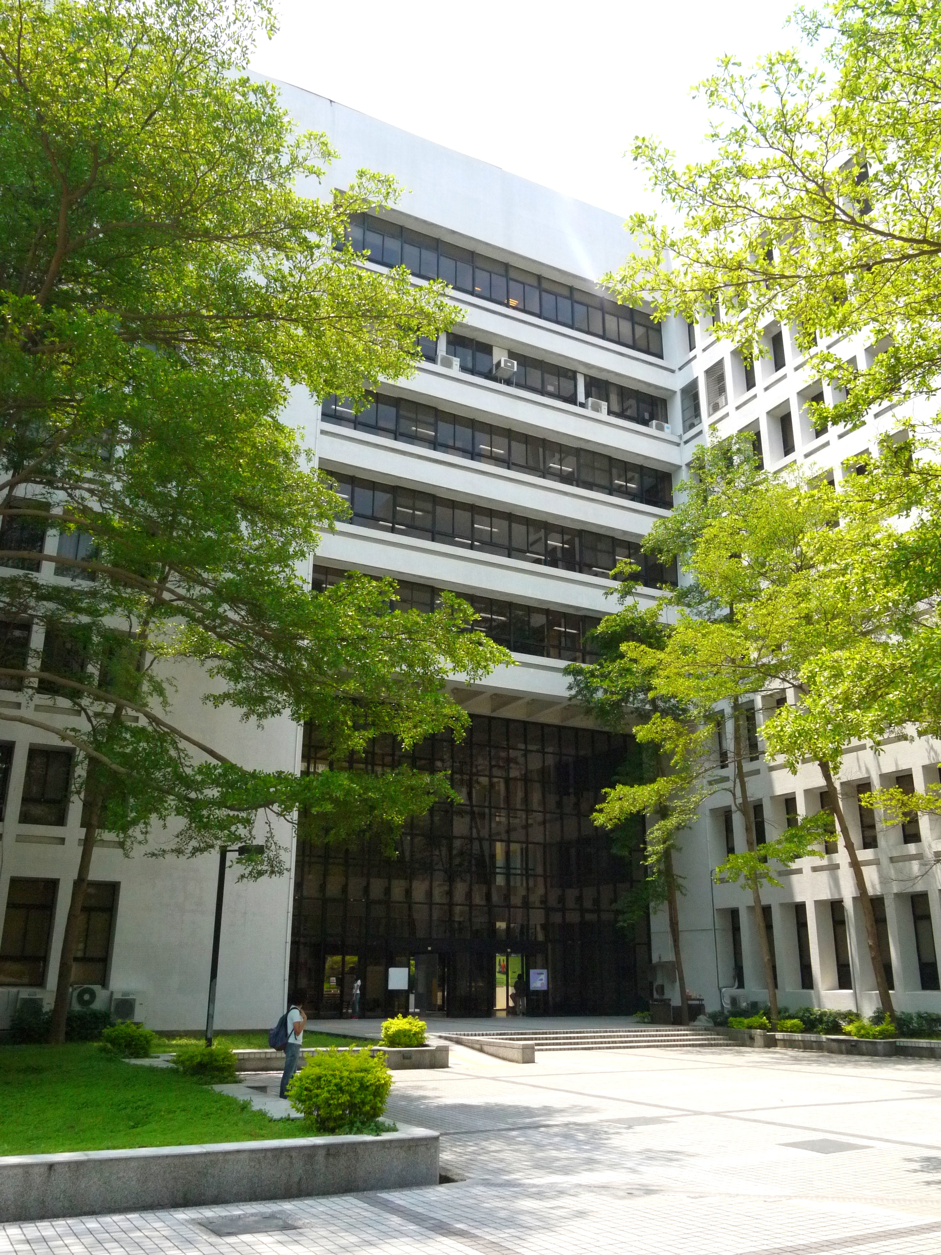 The library building in National Tsing Hua University, general 2rd building, backside中文（台灣）: 國立清華大學圖書館－第二綜合大樓。